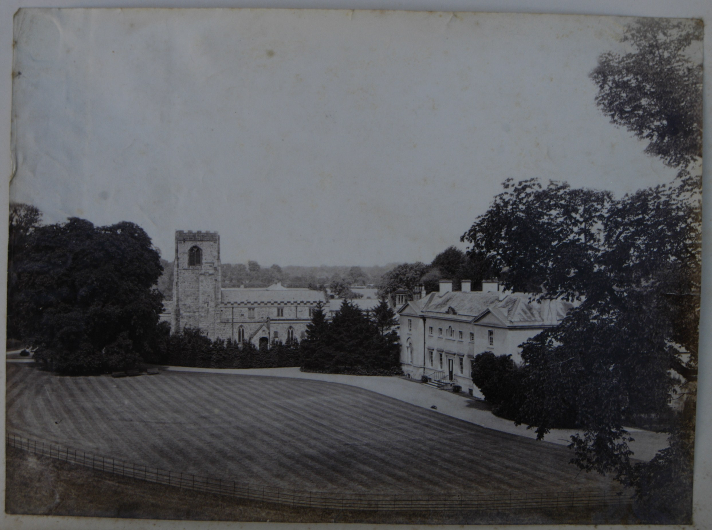 my photo (Rodolph (talk) 14:35, 14 August 2013 (UTC)) of a photo of Kirby Fleetham Hall, Yorkshire, UK, lawn, 1889. Other information Waller family sold and left Kirkby Fleetham in 1889, photo taken near time of their departure.